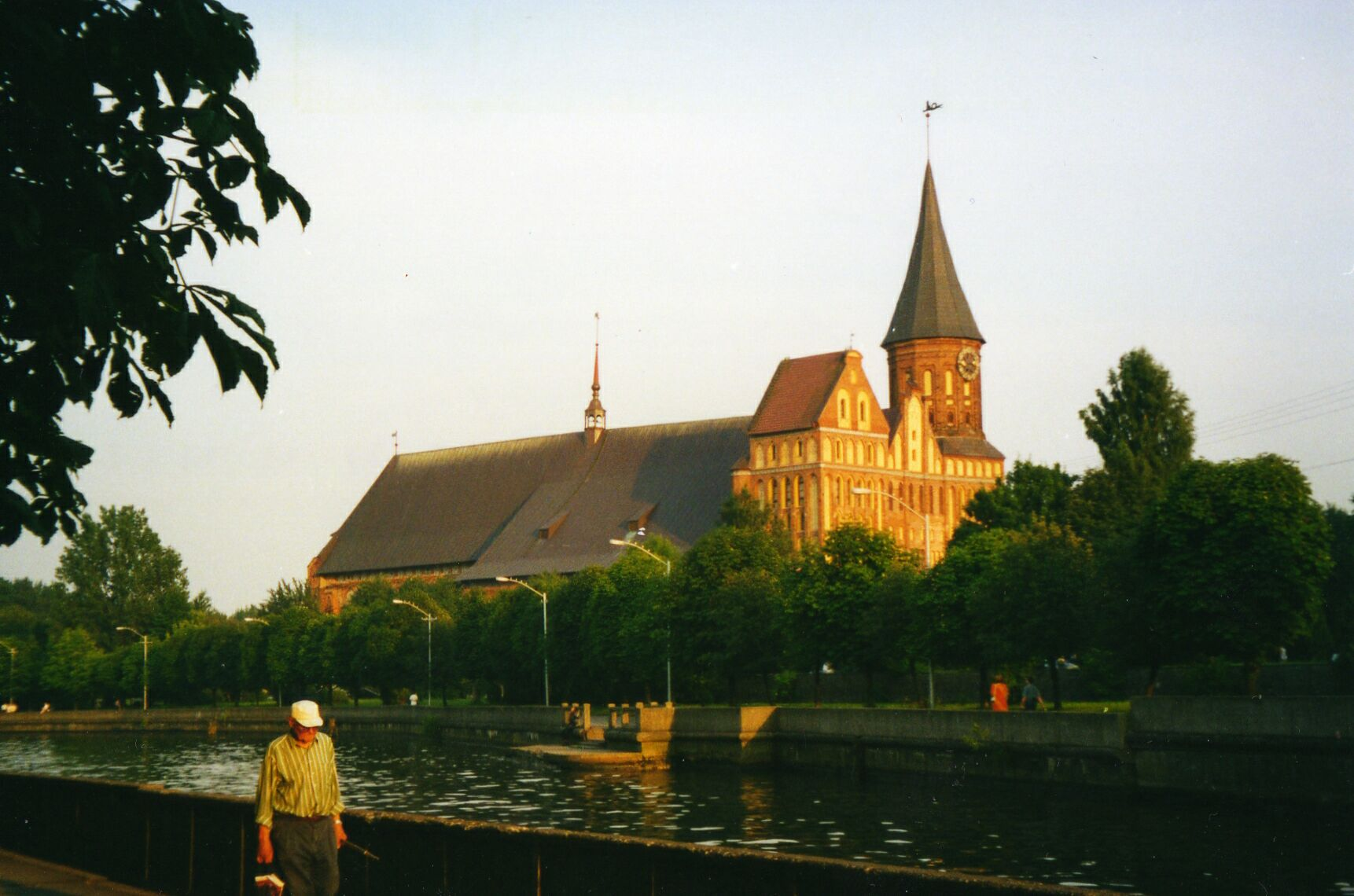 Photo of old cathedral of Kaliningrad in Russia (former Prussian Königsberg)